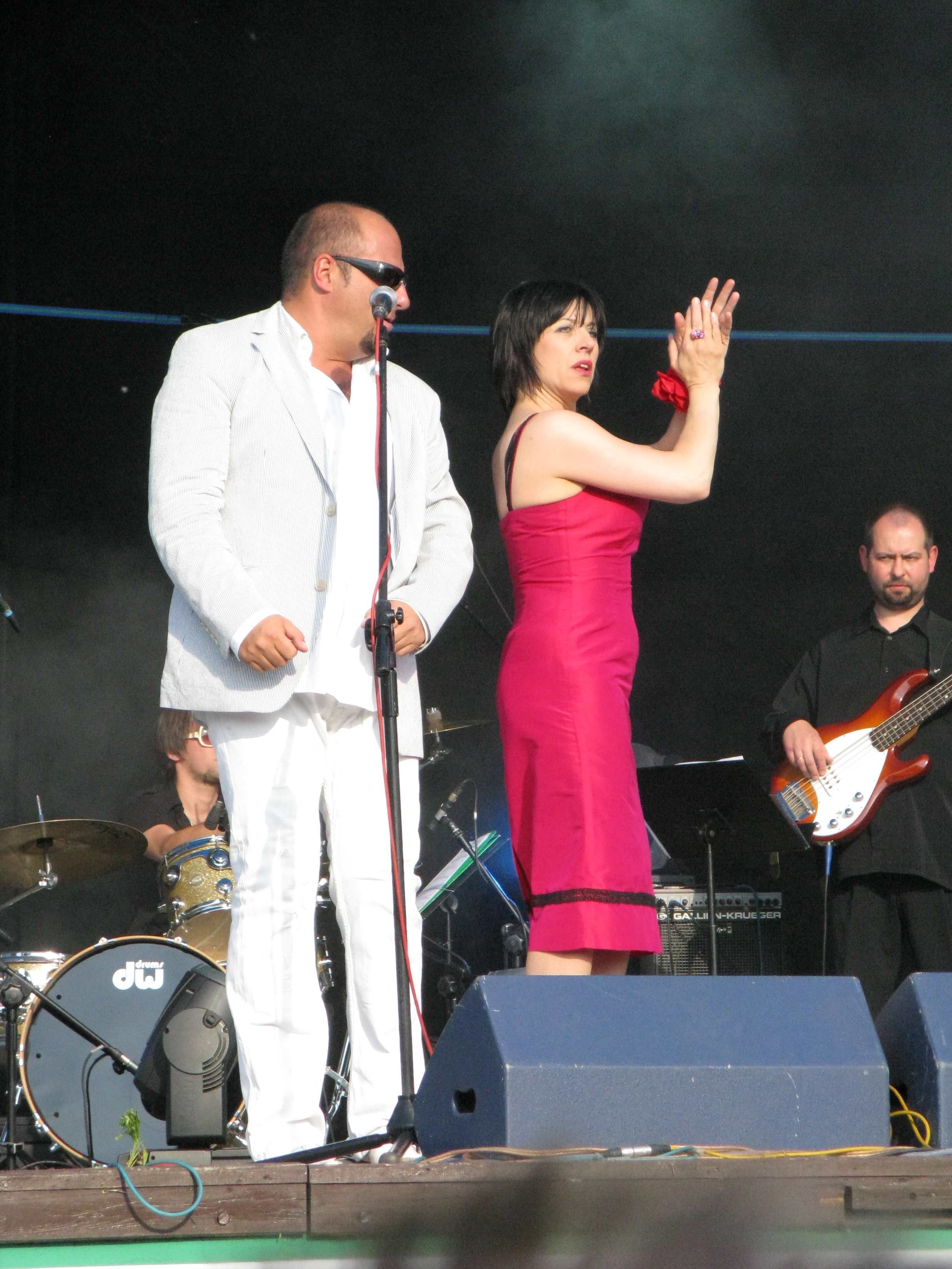 Piotr Gąsowski and Hanna Śleszyńska